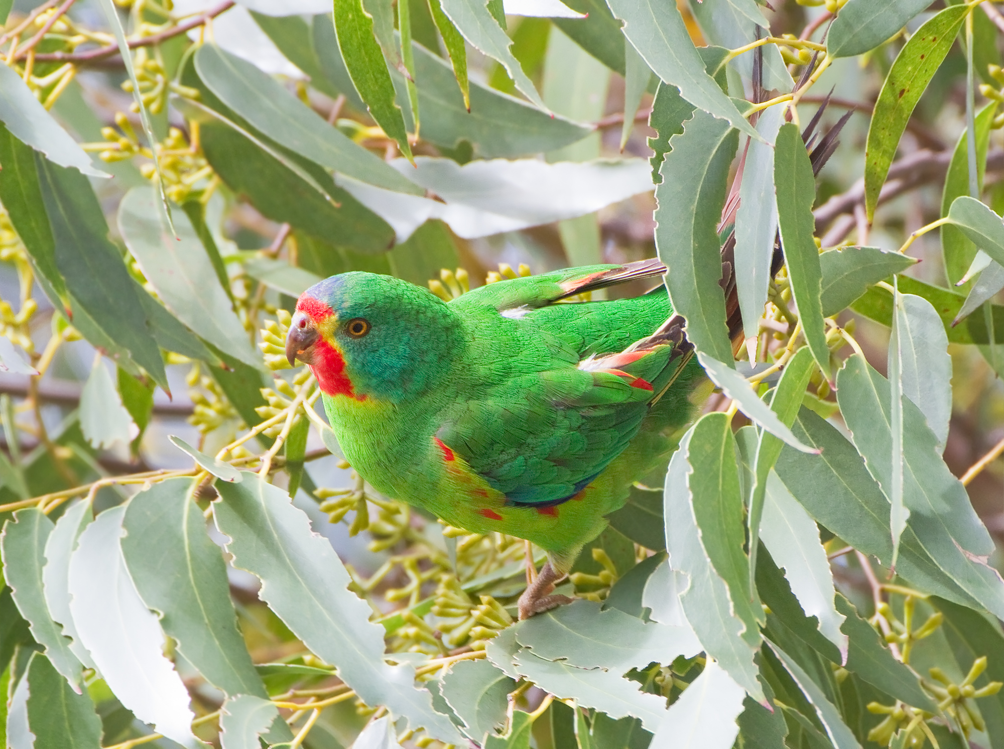 Swift Parrot (Lathamus discolor), Bruny Island, Tasmania, Australia